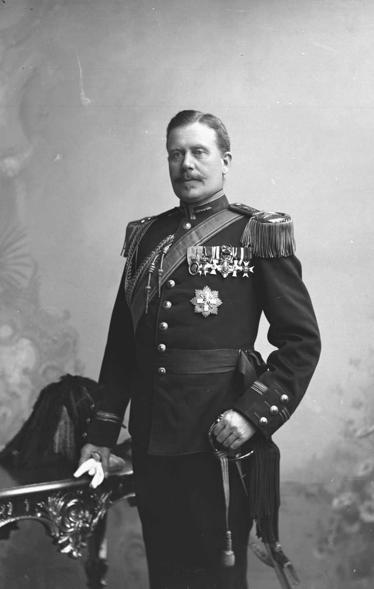 Cropped photo of Carl Fredrik Johannes Bødtker, from the homepage of Oslo Museum. The photo is more than 100 years old and is public domain